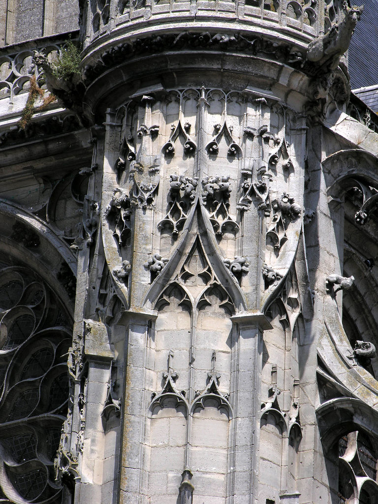 Senlis, cathedral Notre-Dame, Flamboyant detail at transsept fassade. Fly to this location (Requires Google Earth)